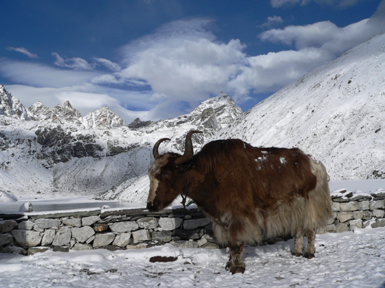 4.790 m, the perfect condition for a yak. On the horizon you can see RenjoLa pass.